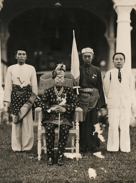 Formal outdoor portrait of the Sultan of Brunei and members of his court. The man on the far left is wearing a kris sword in his belt.